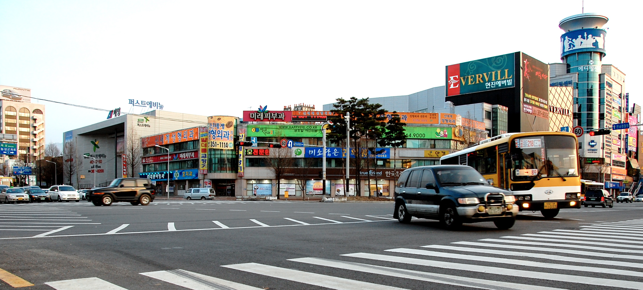 Looking southeast from Gwangcheon Crossroad (Mujin-daero and Jukbong-daero) in Seo-gu, Gwangju, South Korea.